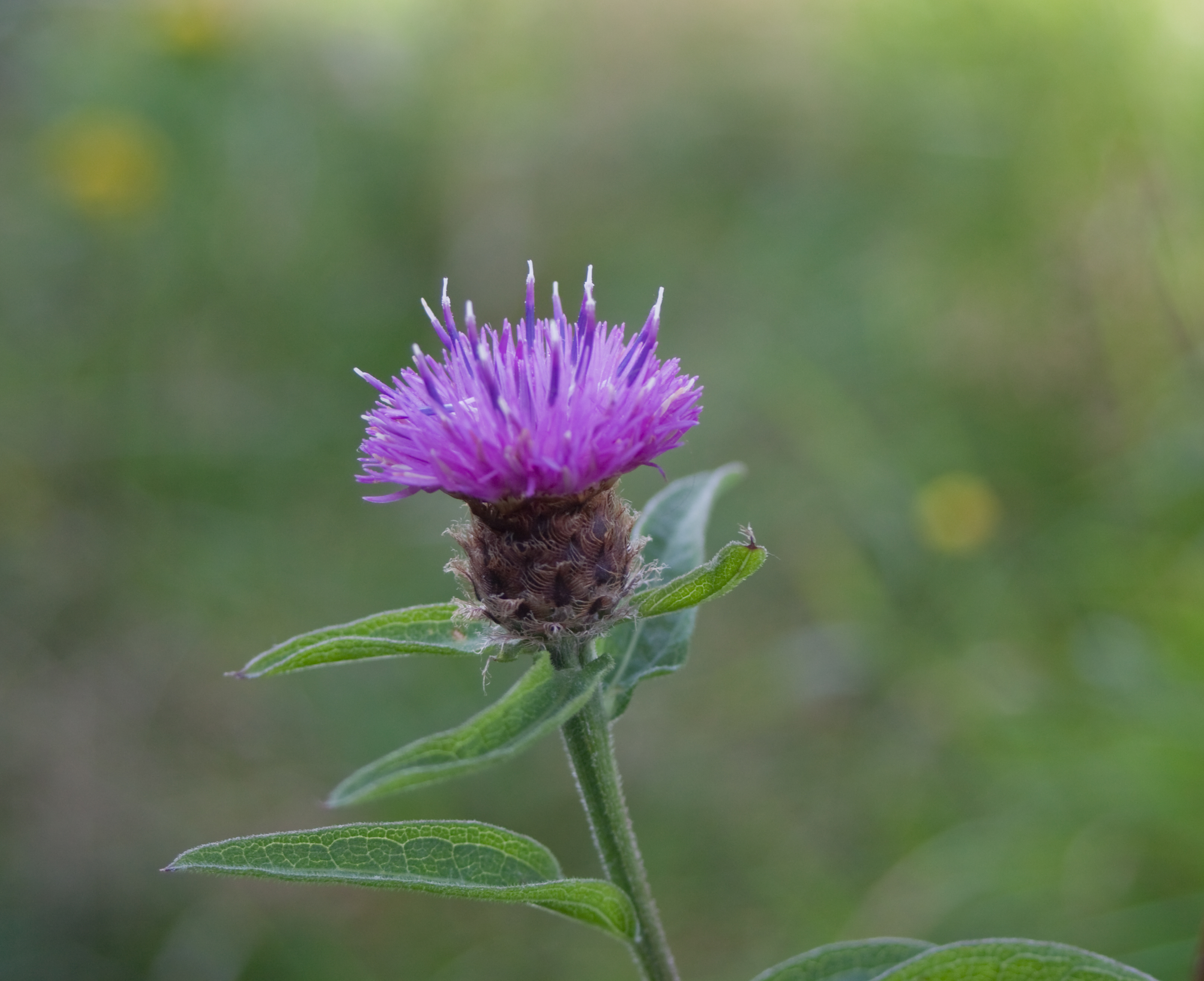 Centaurea nigra, photographed on Crock Point, North Devon, on the South West Coast Path.